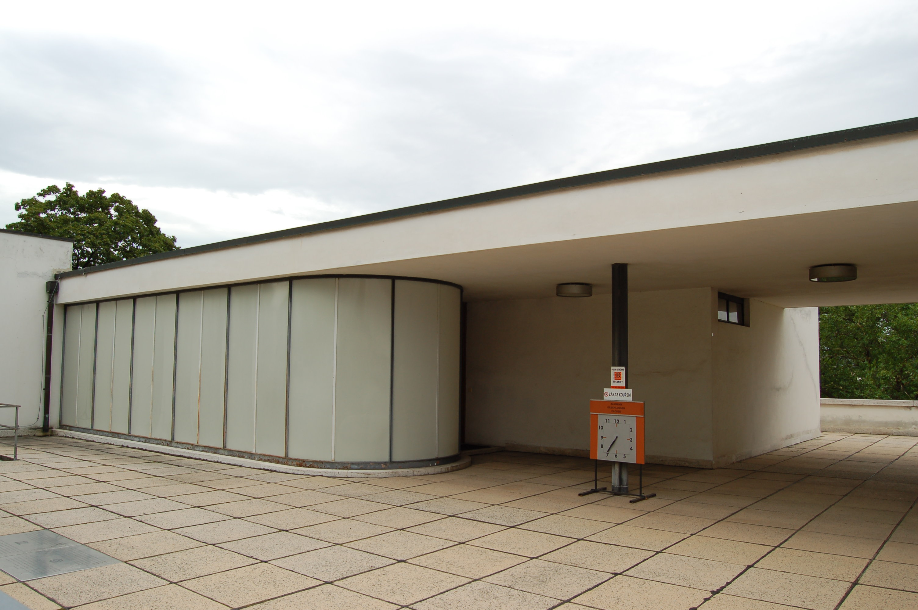 Villa Tugendhat in Brno, Architect: Ludwig Mies van der Rohe